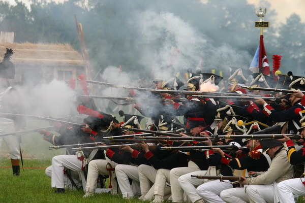 Reconstruction(2006) of Battle of Raszyn(1809)